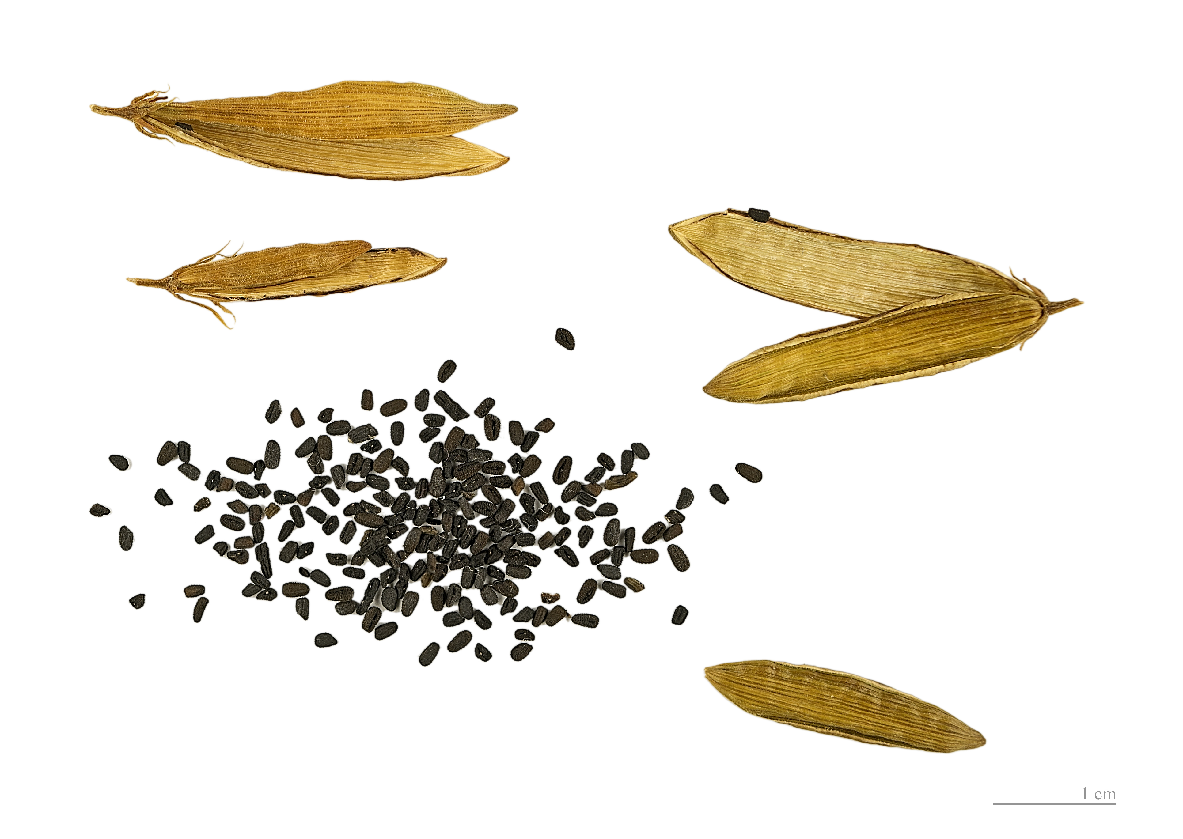 Madagascar Periwinkle, Fruit and seeds